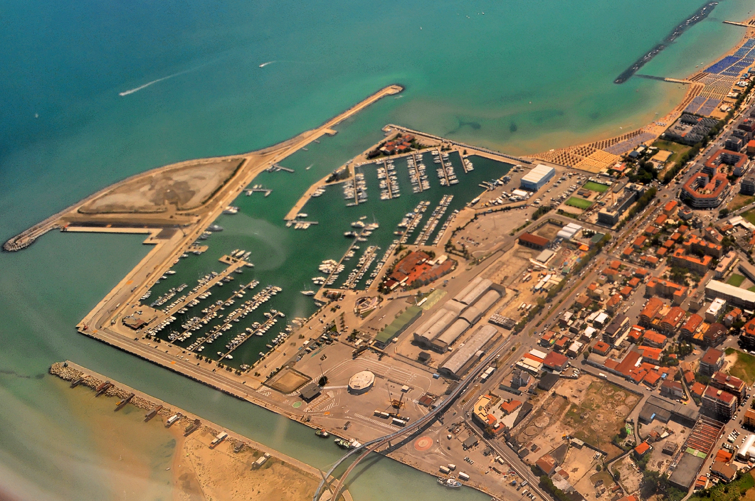 Fly Pescara London Wikimania 2014